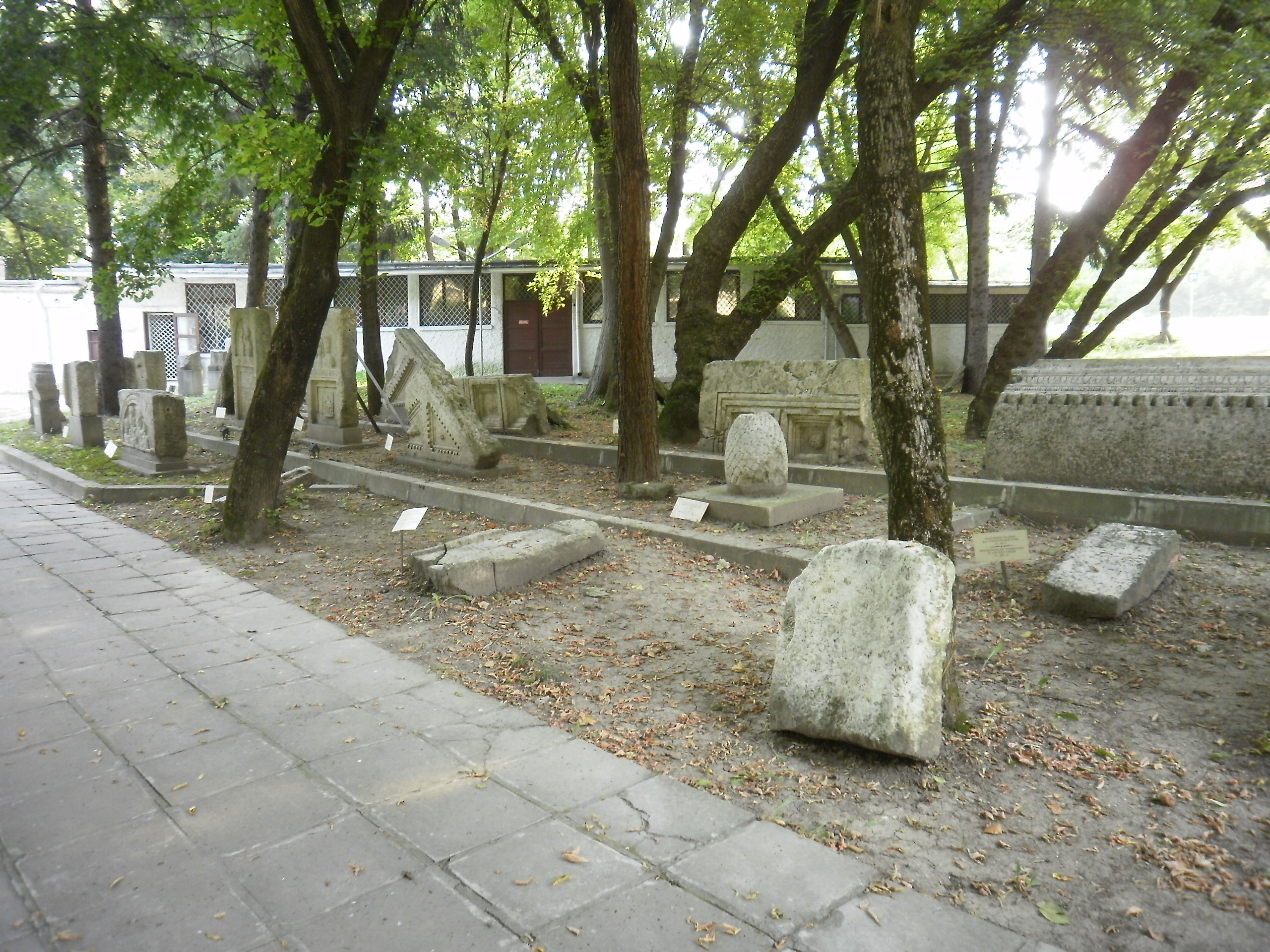 Abrittus, Bulgaria